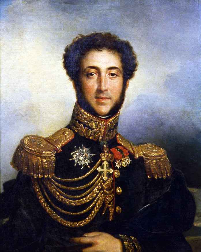 Antoine 9th Duke of Gramont, (1789-1855), Prince of Bidache, Grand Officer of the Légion d'Honneur, Knight of Saint Louis, Grand Cross of the Royal Order of Saint Maurice and Saint Lazare, Lieutenant General of the King's Army. Son of Antoine VIII. Married Ida d'Orsay in 1818